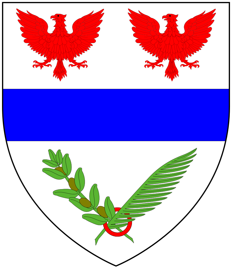 Arms of Kennaway (Kennaway Baronets): Argent, a fess azure between two eagles displayed in chief gules and in base through an annulet of the third a slip of olive and another of palm in saltire proper (Kidd, Charles, Debrett's peerage & Baronetage 2015 Edition, London, 2015, p.B454)